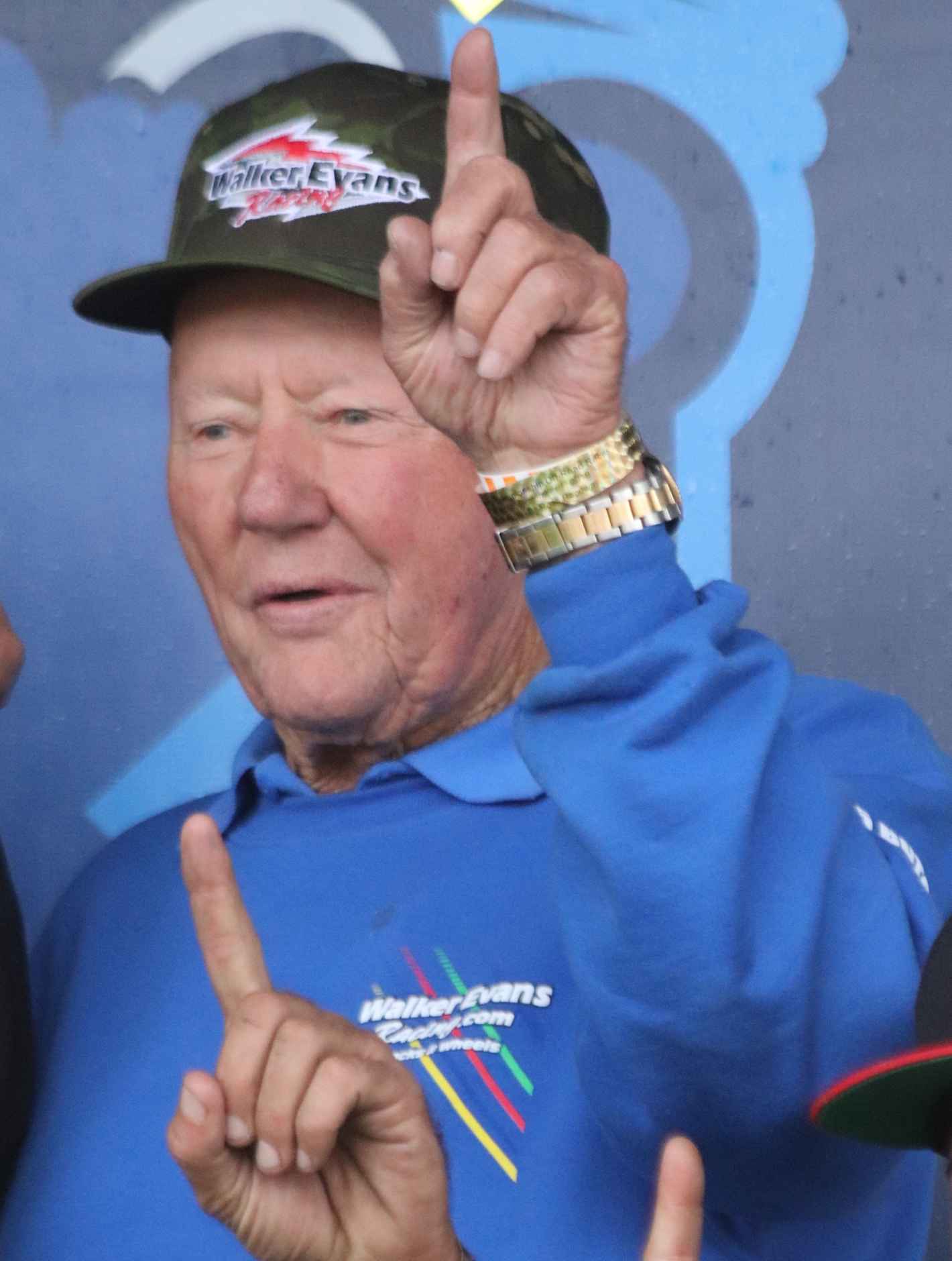 off-road racing legend Walker Evans at Crandon.